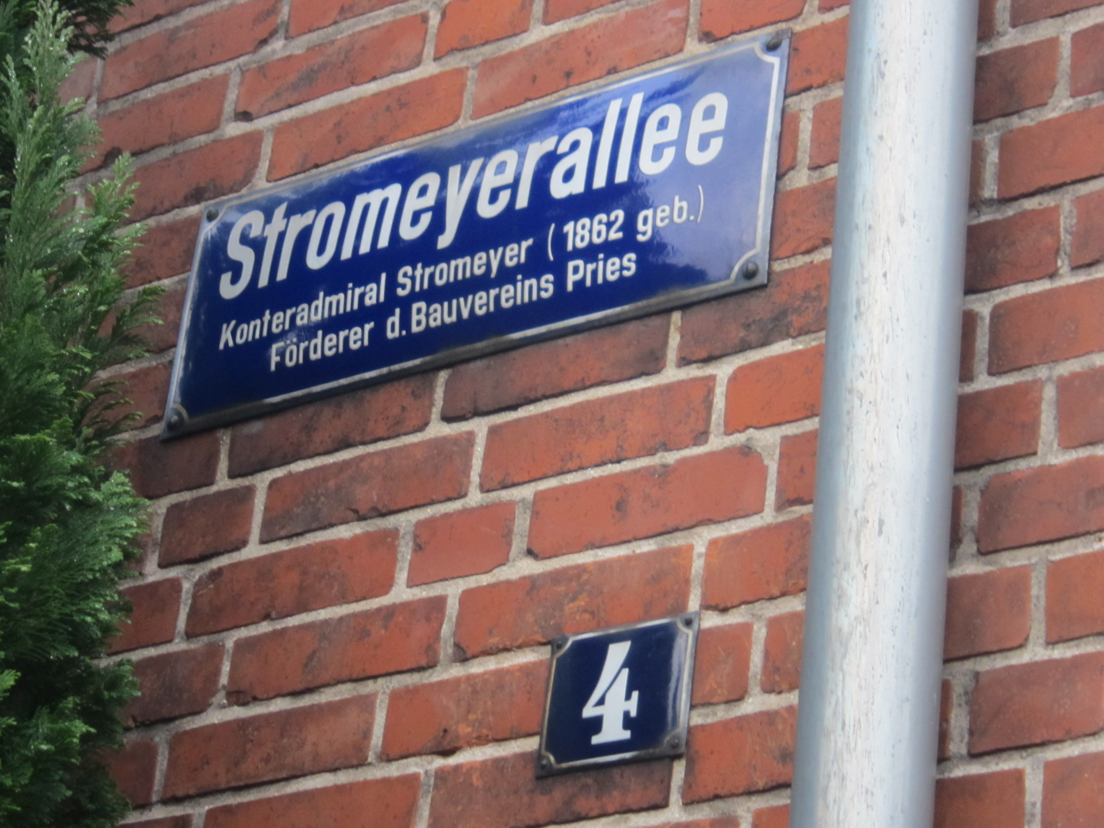 Street sign "Stromeyerallee" in Kiel-Pries